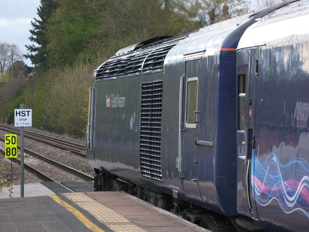 First Great Western's 43029 pauses at pewsey in Wiltshire with the daily London to Frome service. The white sign shows the driver where to stop; the yellow signs are temporary speed restrictions - this HST (High Speed Train) can run at 80 miles per hour but less well-sprung trains are restricted to just 50.